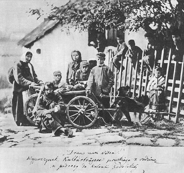 Drang nach osten - German colonists resting in their travel to a destination village near Kamianets-Podilskyi (Ukraine now)